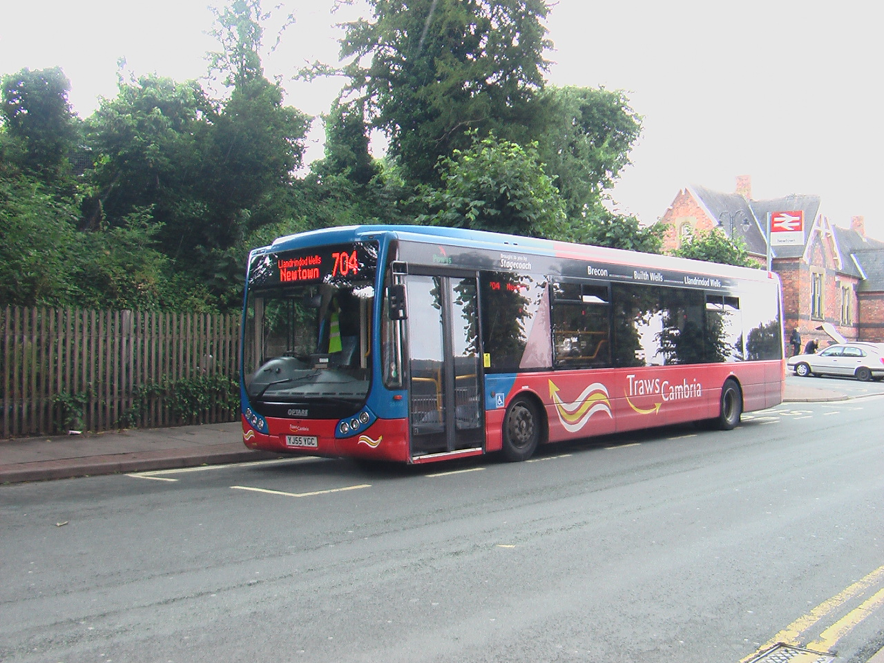 A Stagecoach Red & White bus on TrawsCambria route 704 at Newtown railway station, Powys, Wales. The bus is a 2006 Optare Tempo, registration mark YJ55 YGC, fleet number 25103, with TrawsCambria route branding.